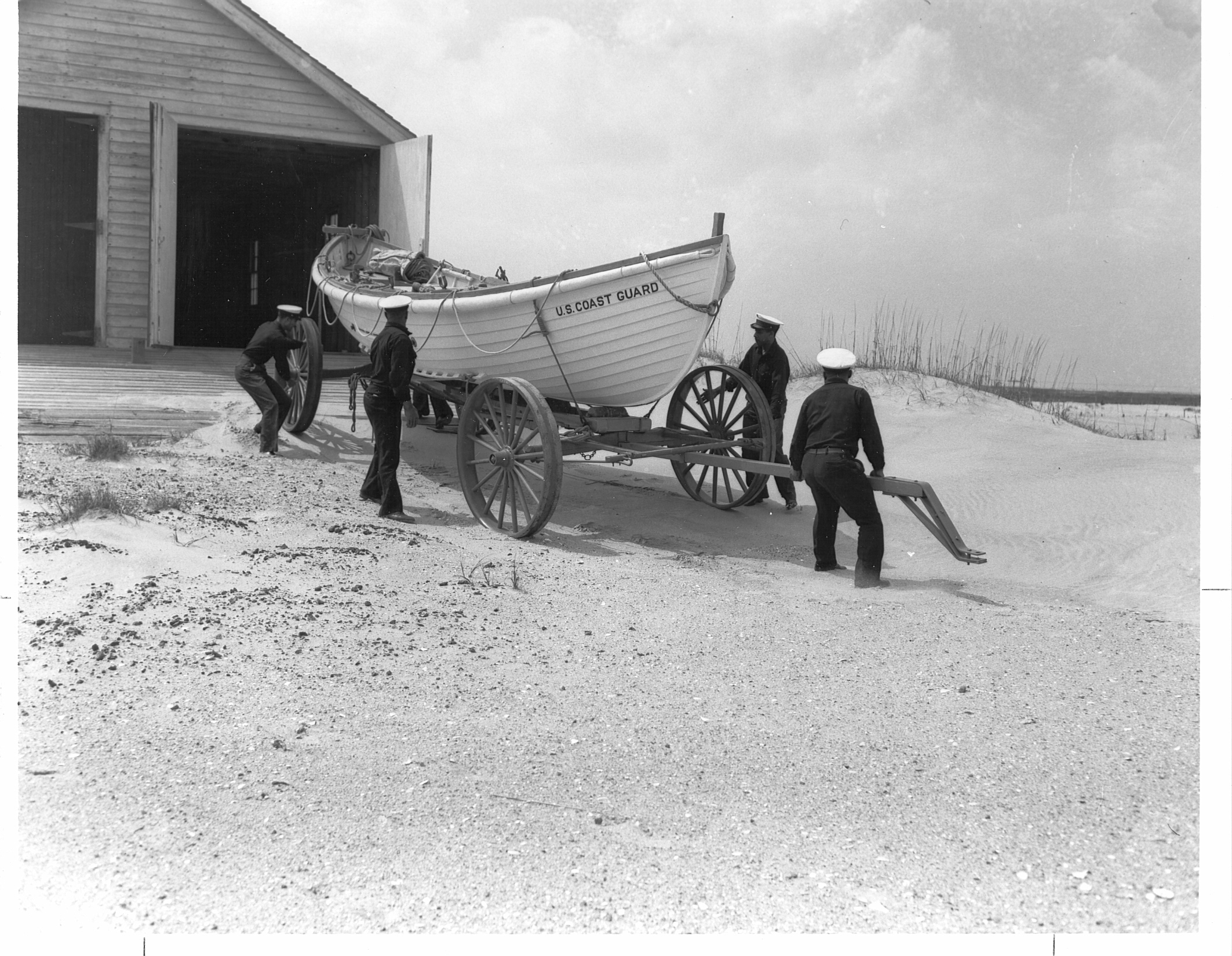 Pea Island USCG station, circa 1942, showing lifeboat, boathouse, and crewmen. From USCG historian's office website at